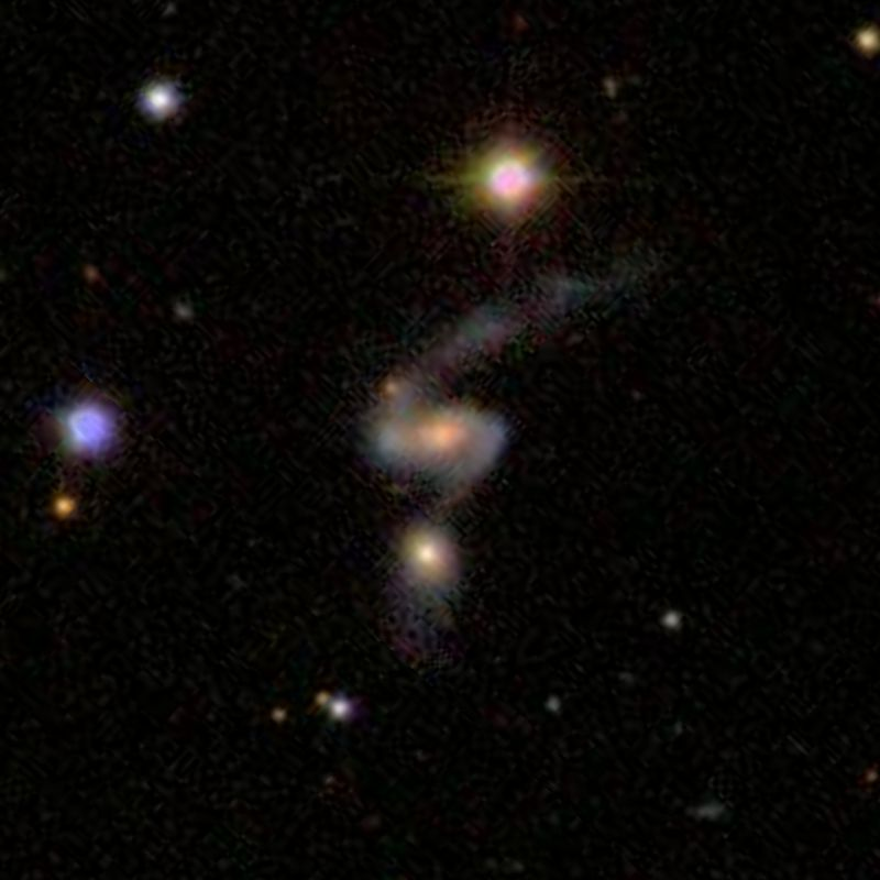 2MASX J17000690+2307533 (PGC 215460)